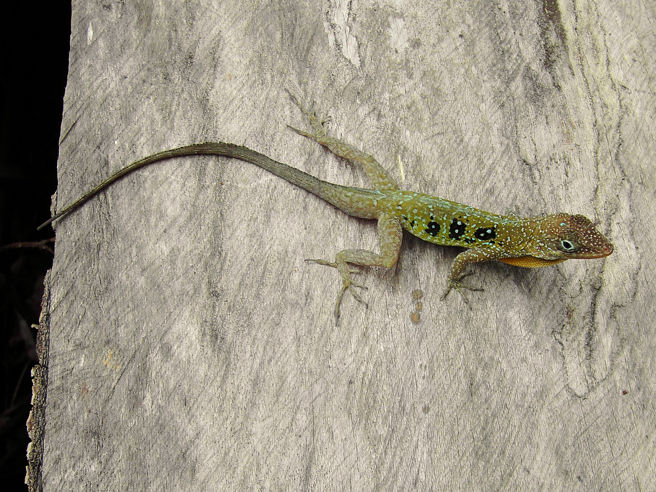 Male of the mountain subspecies of the local endemic anole near to Syndicate Waterfall, Dominica, W.I.All of the Caribbean islands have one or more endemic anoles. Dominica has only one, but the four subspecies have a strikingly different appearance. This is the interior uplands subspecies.